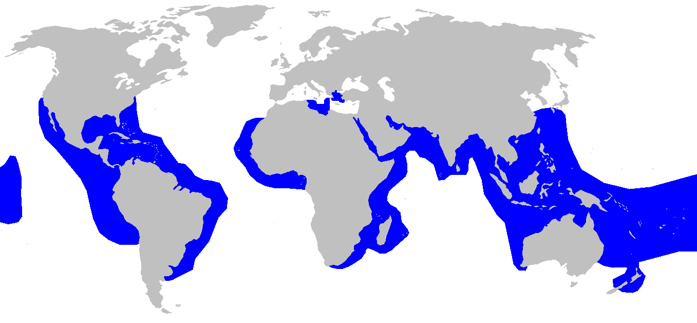 Tiger shark (Galeocerdo cuvier) distribution map